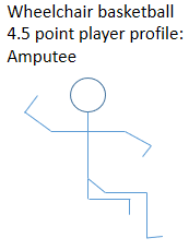 Created using information from . ISOD amputee class: A4 IWBF class: 4.5 point player